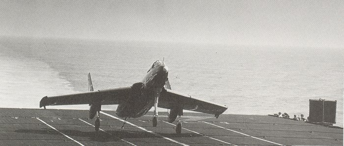 Landing of the first production Vought F7U-1 Cutlass (BuNo 124415) from the aircraft carrier USS Midway (CVB-41) on 23 July 1951. The plane was piloted by Lt.Cmdr. E.L. Feightner. After tests at the NATC Patuxent River the F7U-1 was used for carrier qualifications. It was the only test of a F7U-1 on a carrier, as the pilot's visibility was so poor that he could not see the flight deck during the landing. The Landing Signal Officer had to give Feightner the signal to cut the engine, but this method almost led to a ramp strike.